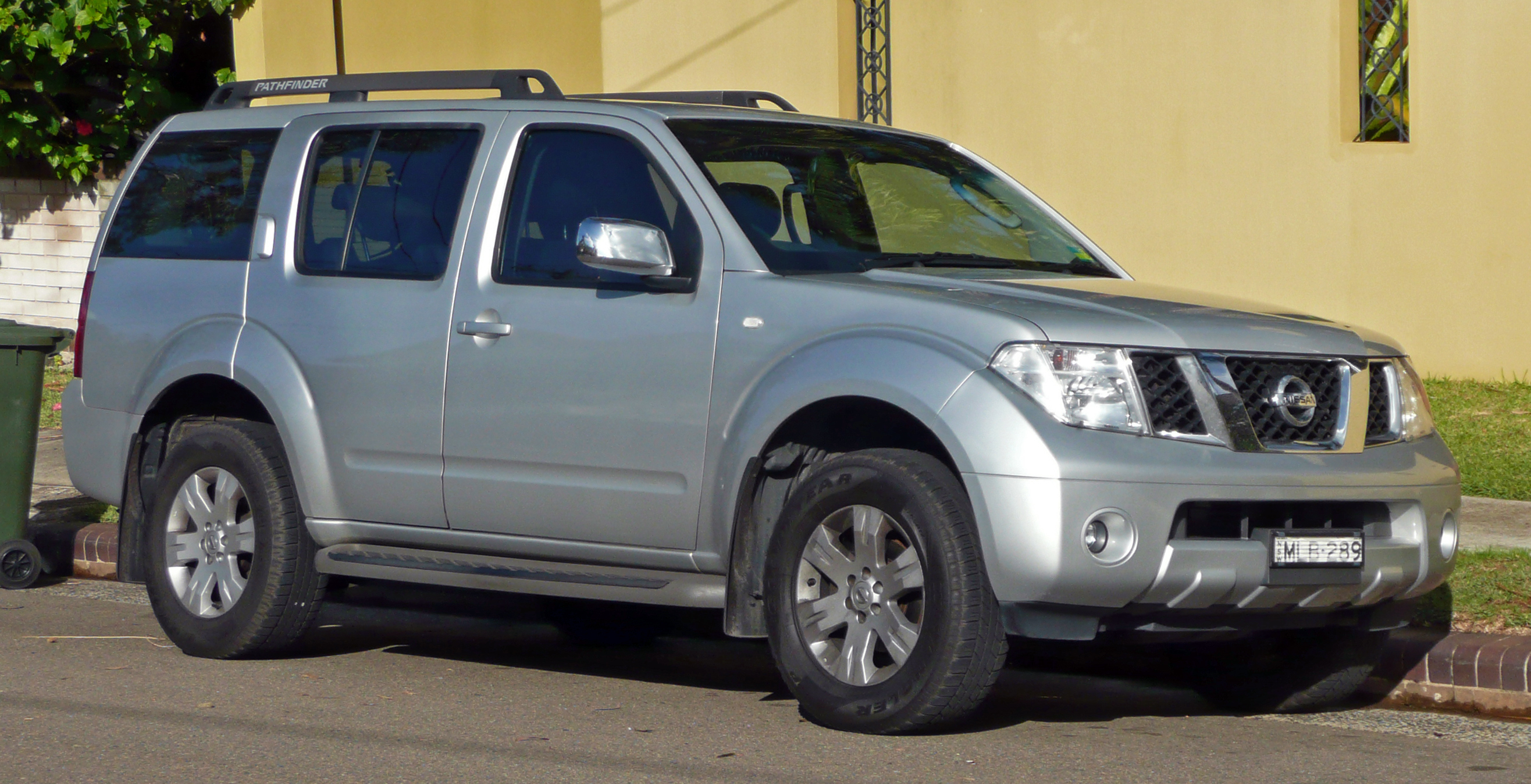 2005–2007 Nissan Pathfinder (R51) Ti wagon. Photographed in Cronulla, New South Wales, Australia.